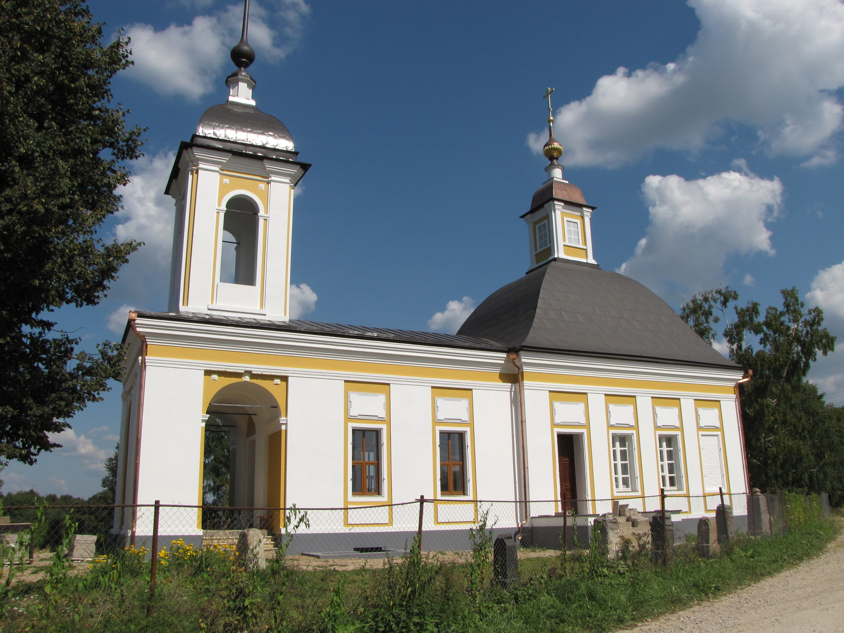 Church of the Transfiguration. Village Spas-Kamenka, Dmitrovsky district, Moscow region.